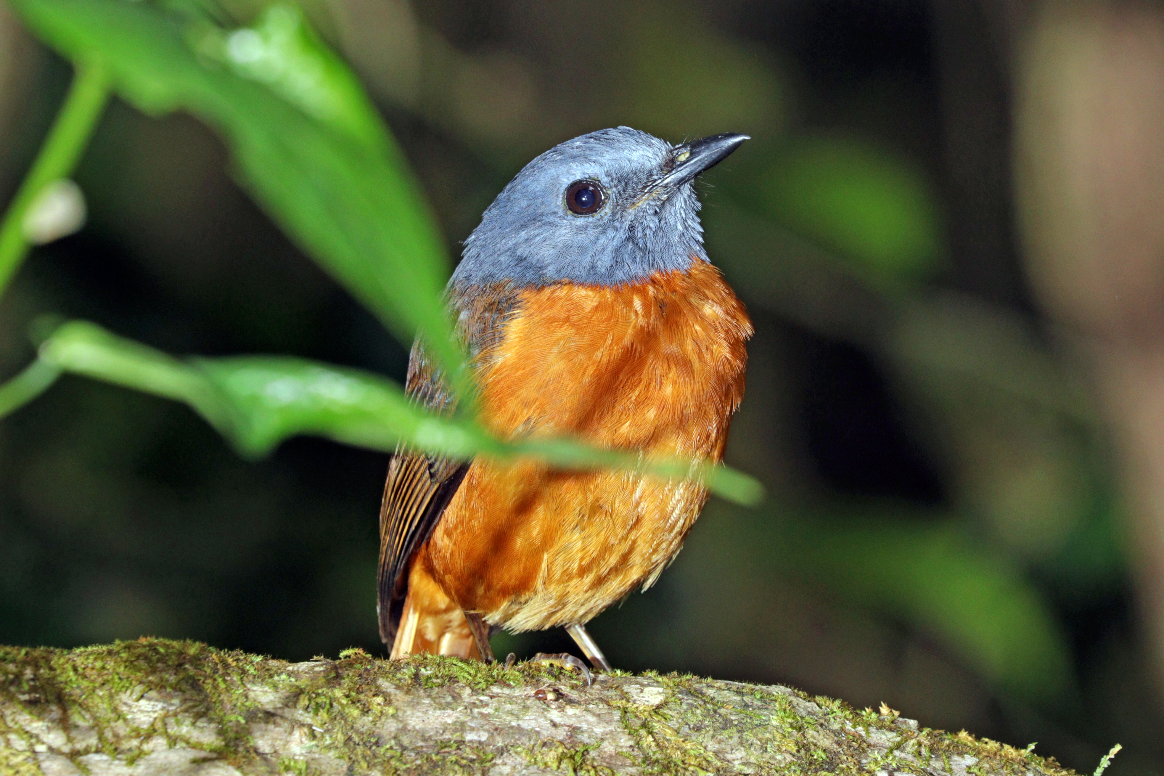 Amber mountain rock thrush (Monticola sharpei erythronotus) male, Montagne d’Ambre National Park, Madagascar